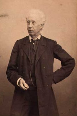 John Helms (1828 November 8th—1895 December 4th), professor, manager of Borgerdydskole in Copenhagen.